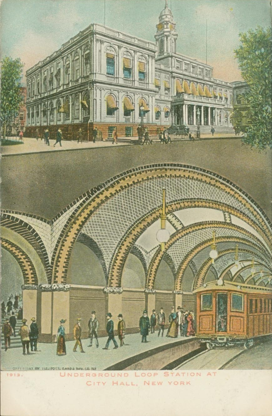 Postcard image of the IRT subway station built below City Hall in New York, New York. Store Web page states: Defunct New York City subway station at City Hall. Unused, undivided back post card [...] In lower lefthand part of picture, above the white space: Copyright Ill. Post Card & Nov. Co., NY